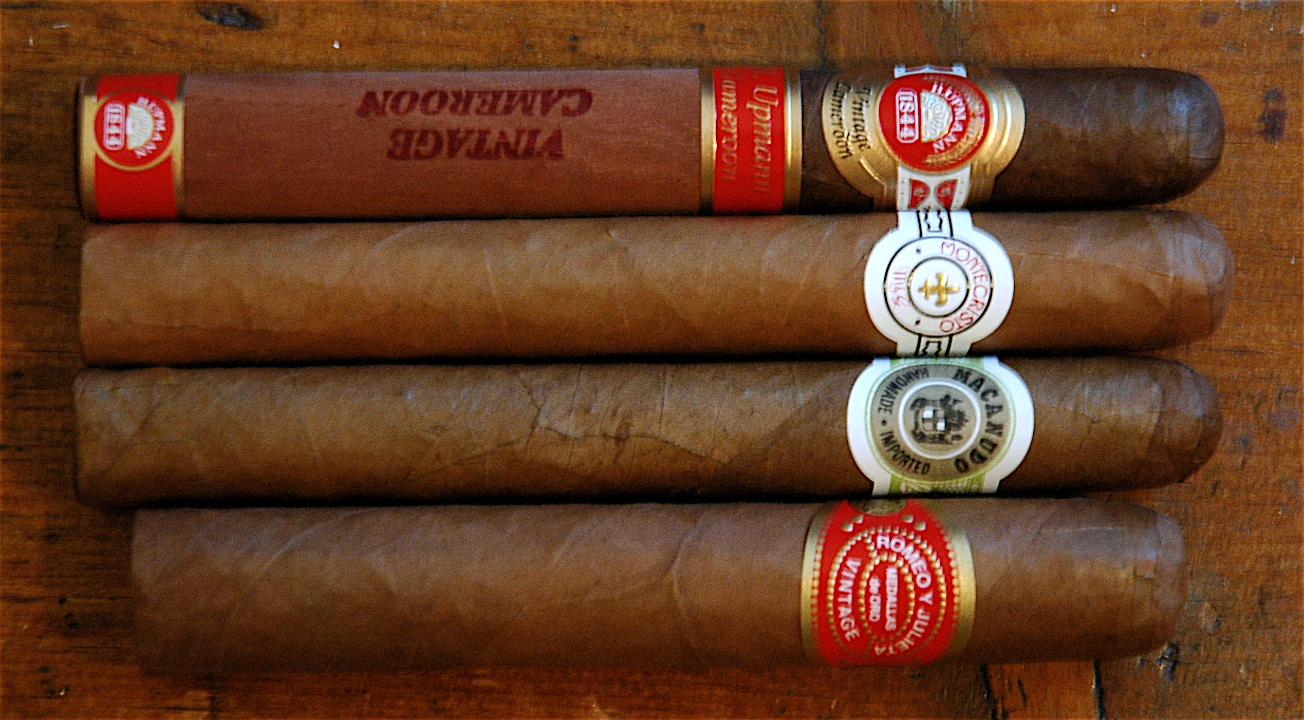 Four premium cigars of various brands (from top: H. Upmann, Montecristo, Macanudo (cigar)Macanudo, Romeo y Julieta)